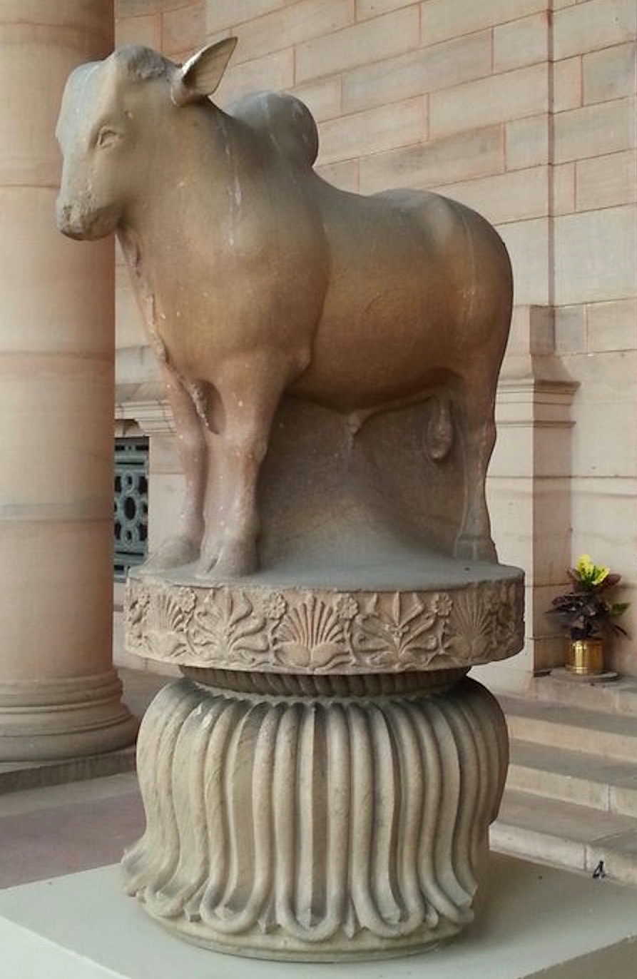 Rampurva bull in Presidential Palace high closeup. Detail of